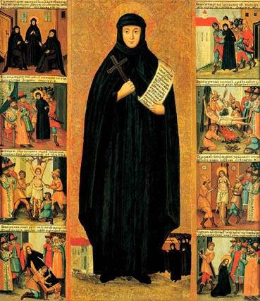 Icon: indefinite Saint and scenes from her life. Ukraine. Икона. 'Св. вмч.(?) с житием'